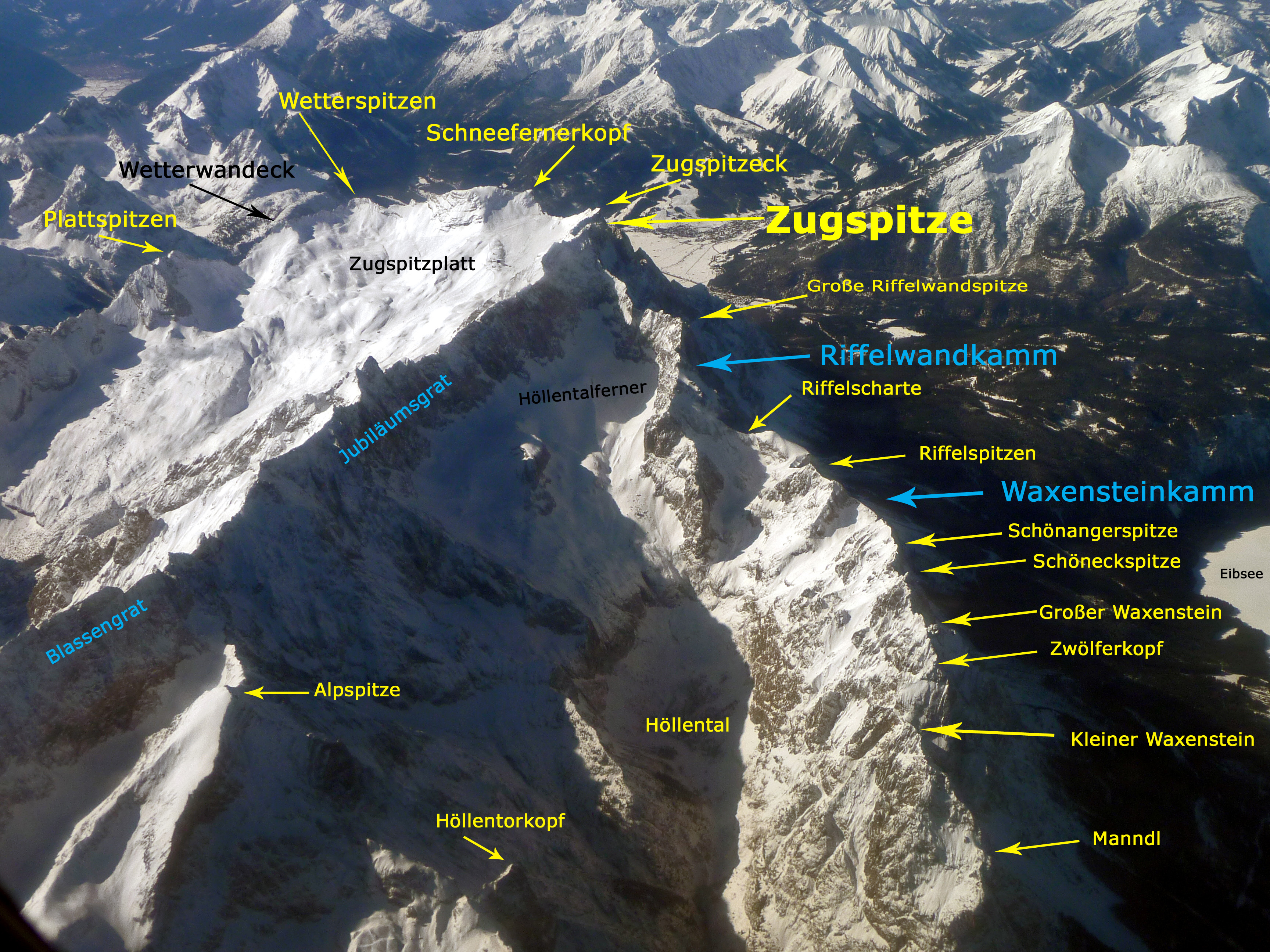 Zugspitze in winter. Picture taken from the East out of a plane.